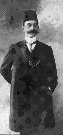 photography of composer Italo Selvelli